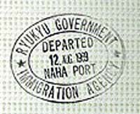 GRI exit stamp